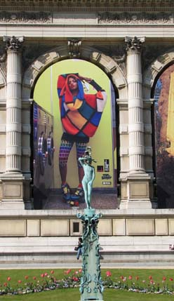 Fashion museum